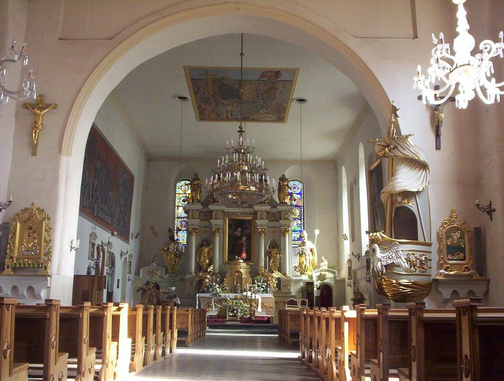 Saint Adalbert's of Prague church in Biała Rawska, Poland.